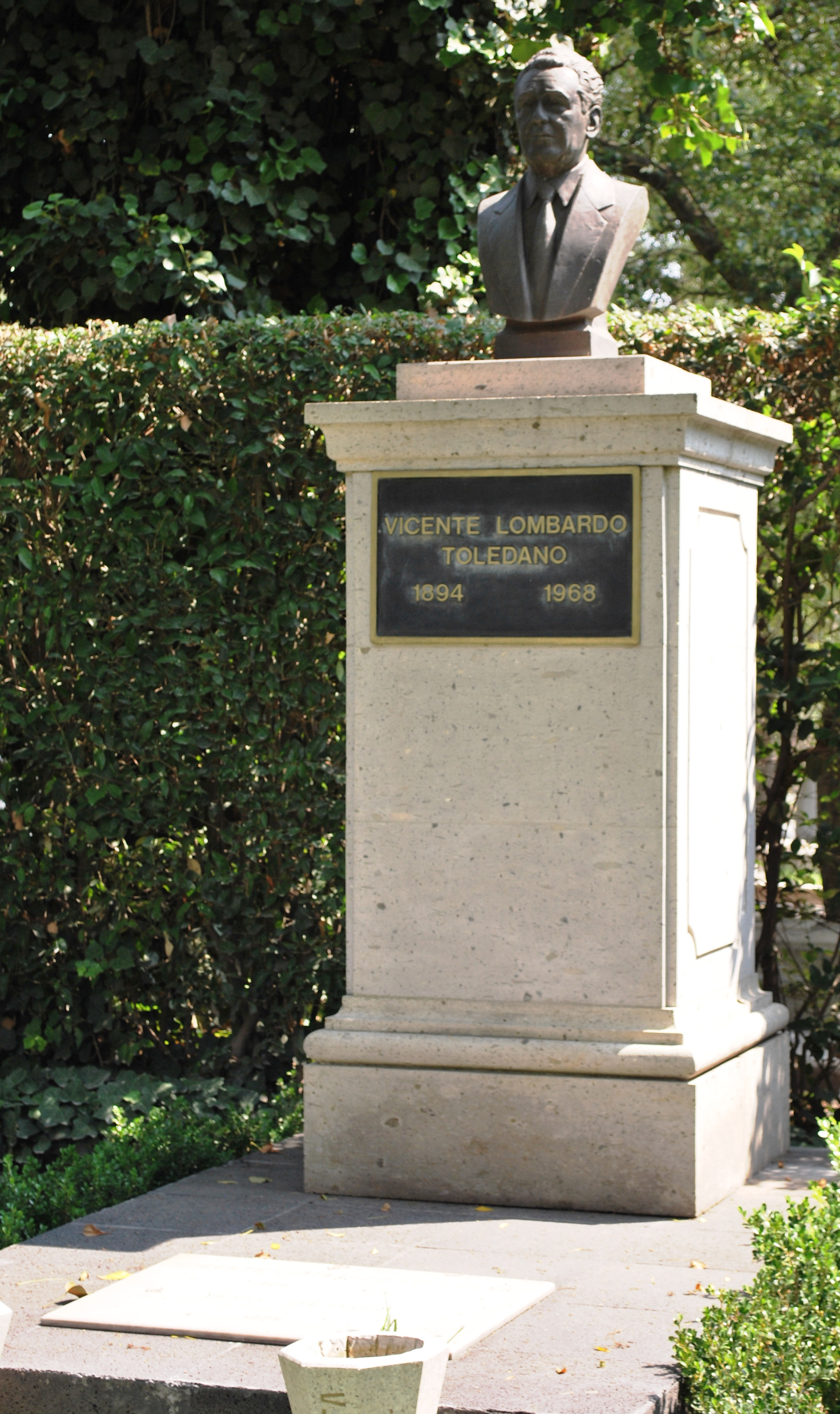 Tomb of Vicente Lombardo Toledano in the Panteon Civil de Dolores cemetery in Mexico City